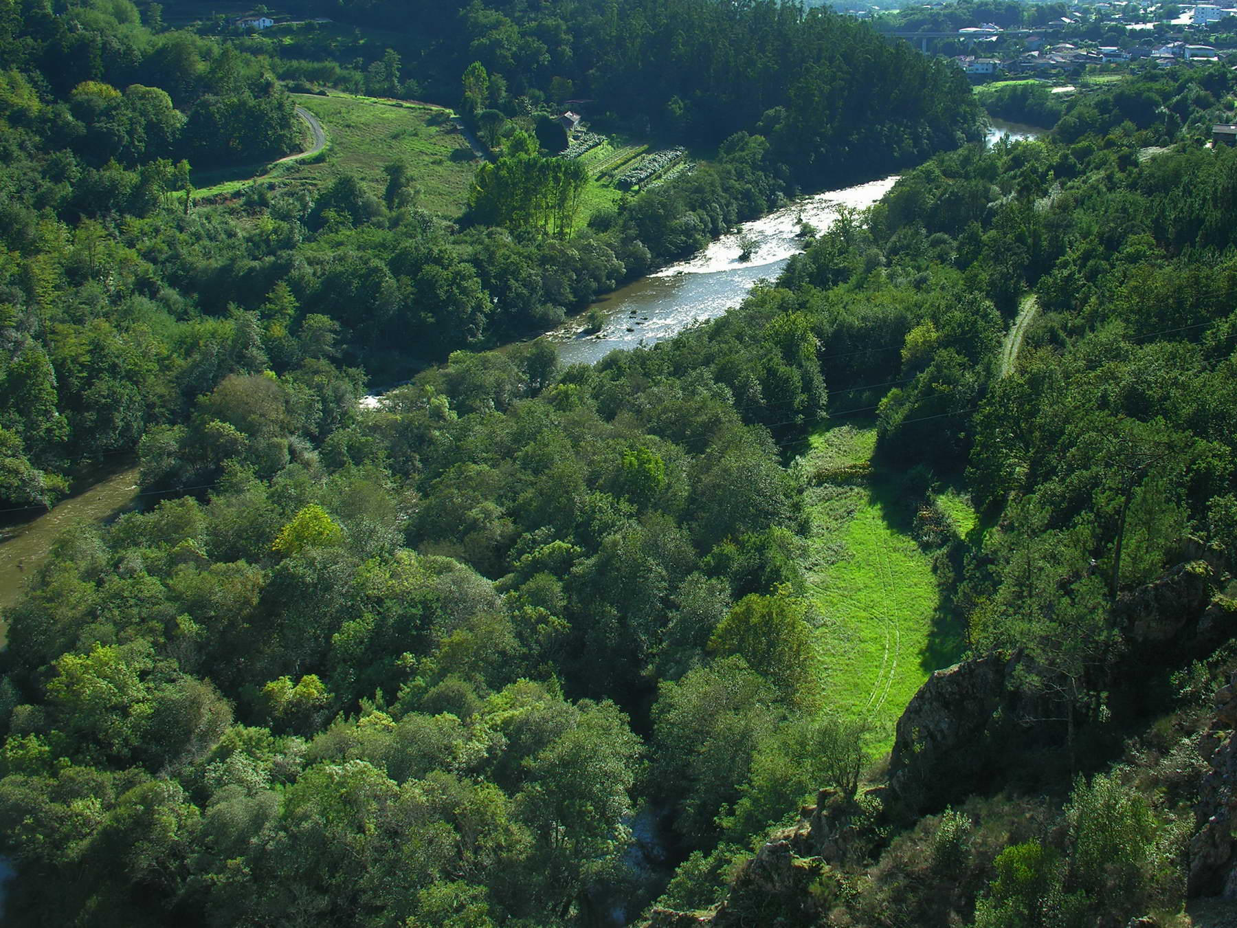 Publish by= Luis Miguel Bugallo Sánchez.